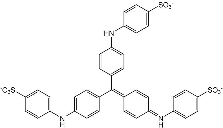 Description: Chemical structure of Methyl blue Author, date of creation: selfmade by Shaddack, 6 November 2005 Source: self-made Copyright: Public Domain (PD) Comments: b/w hires PNG; ChemDraw